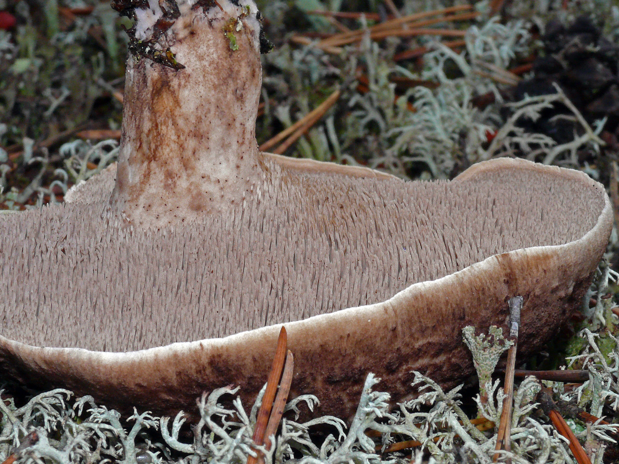 Sarcodon imbricatus. Found in surroundings of village Knistushki, Belarus.